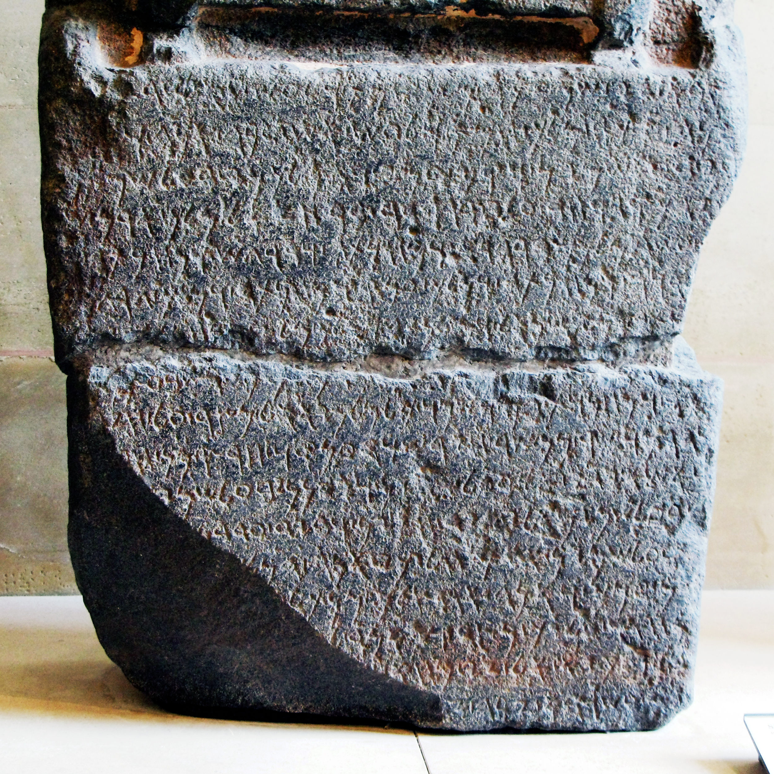 ArtistUnknownDescription Zakkur stele . Marks the taking of the throne of Hamath by king Zakkur Then, I lifted my hands towards Ba`al Shamîm, and Baal Shamaïn talked to me through seers, and Baal Shamaïn told me "do not fear! for it is me who made you reign and it is me who shall stand by your side, and it is me who shall free you from all the kings who besiege you [1] Dimensions13 cm high, 62 cm wideCurrent location (Inventory)Louvre Museum Native nameMusée du LouvreLocationParisCoordinates48° 51′ 37″ N, 2° 20′ 15″ E Established1793Website control : Q19675 VIAF: 257711507 ISNI: 0000 0001 2260 177X ULAN: 500125189 LCCN: n80020283 NLA: 35912436 WorldCat Sully Rez-de-chaussée Levant Salle CAccession numberAO 8185Credit lineBought in 1922Source/PhotographerRama Zakkur stele . Marks the taking of the throne of Hamath by king Zakkur Then, I lifted my hands towards Ba`al Shamîm, and Baal Shamaïn talked to me through seers, and Baal Shamaïn told me "do not fear! for it is me who made you reign and it is me who shall stand by your side, and it is me who shall free you from all the kings who besiege you [1]